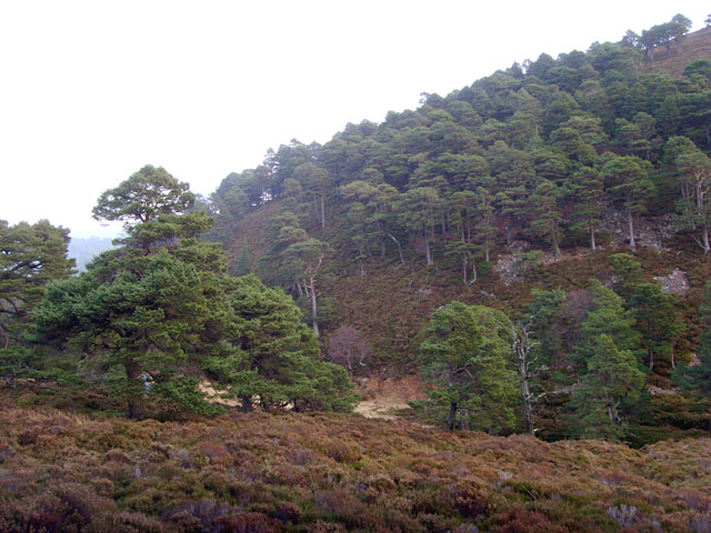 Caledonian Pine Forest above the Water of Allachy